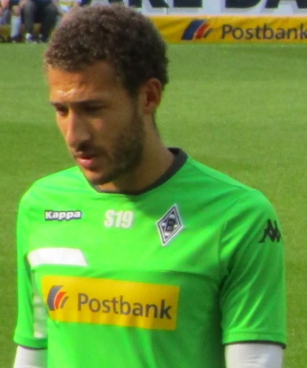 Fabian Johnson